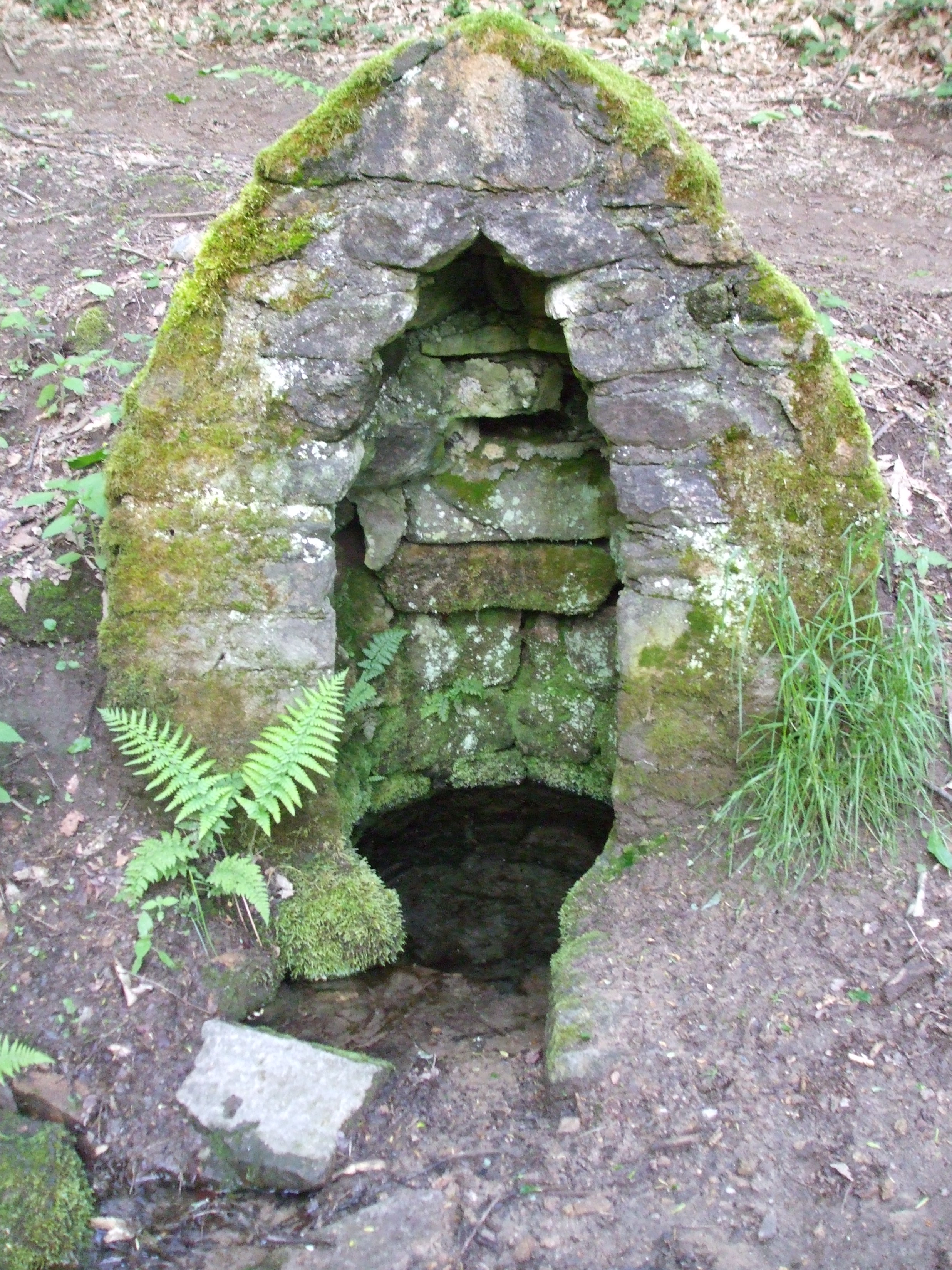 Fontain of devotion; bonne fontaine 2 of Courbefy, Bussière-Galant, Haute-Vienne, France